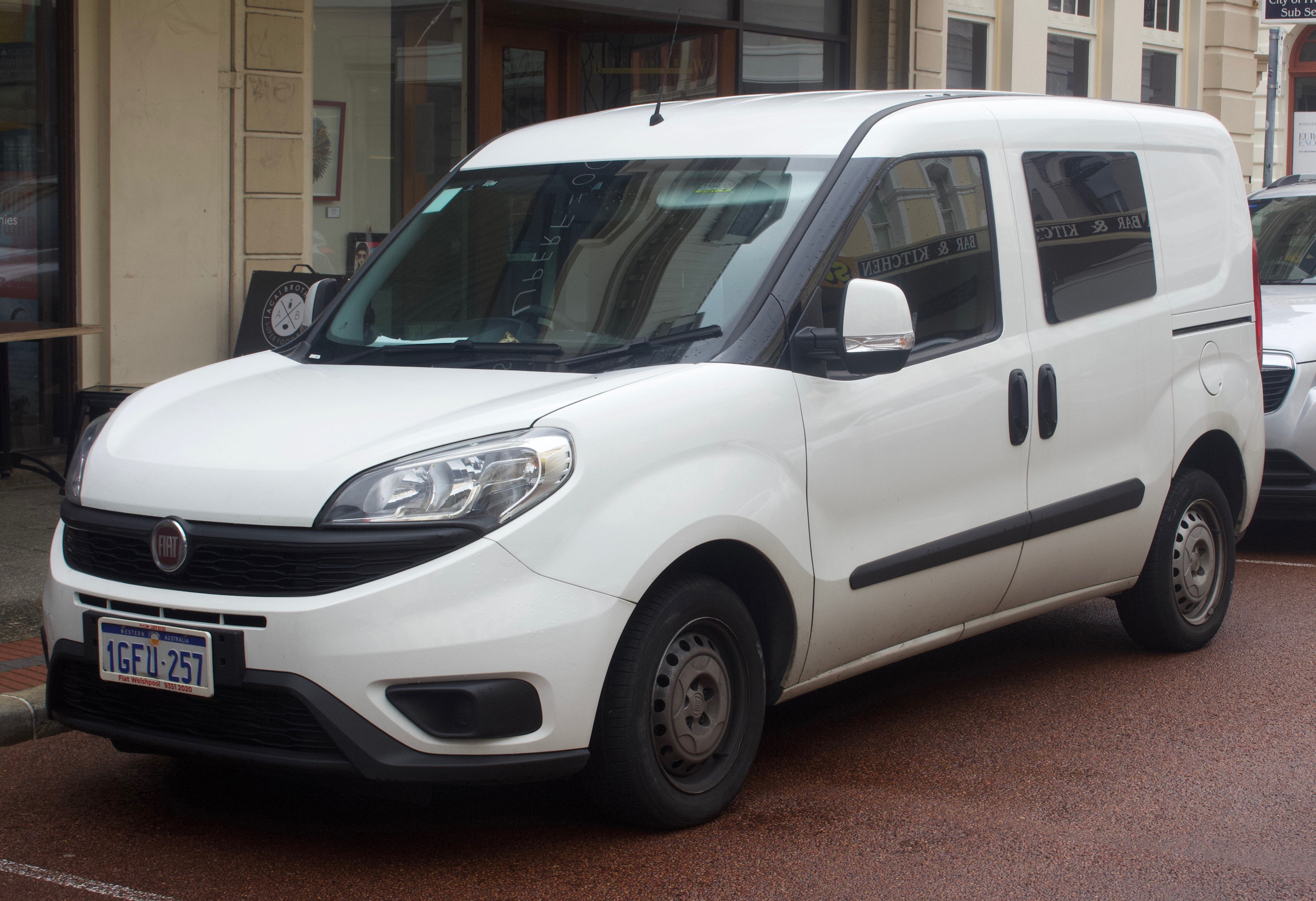 2017 Fiat Doblo (263 Series II) SWB van. Note that Carsales classifies it as a Series 1, but that would denote it to be a pre-facelift. Facelifts are generally classified as series 2 or similar. Photographed in Fremantle, Western Australia, Australia.